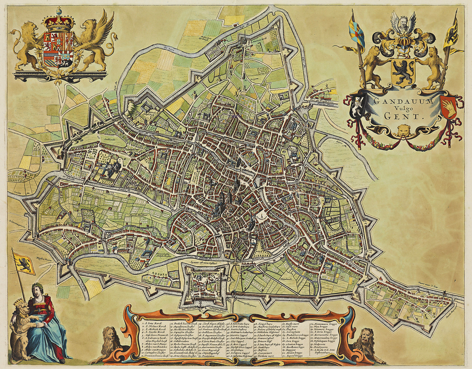 Plate 'pl088'(Gent) from the Stedenboek (citybook) by Frederick de Wit.